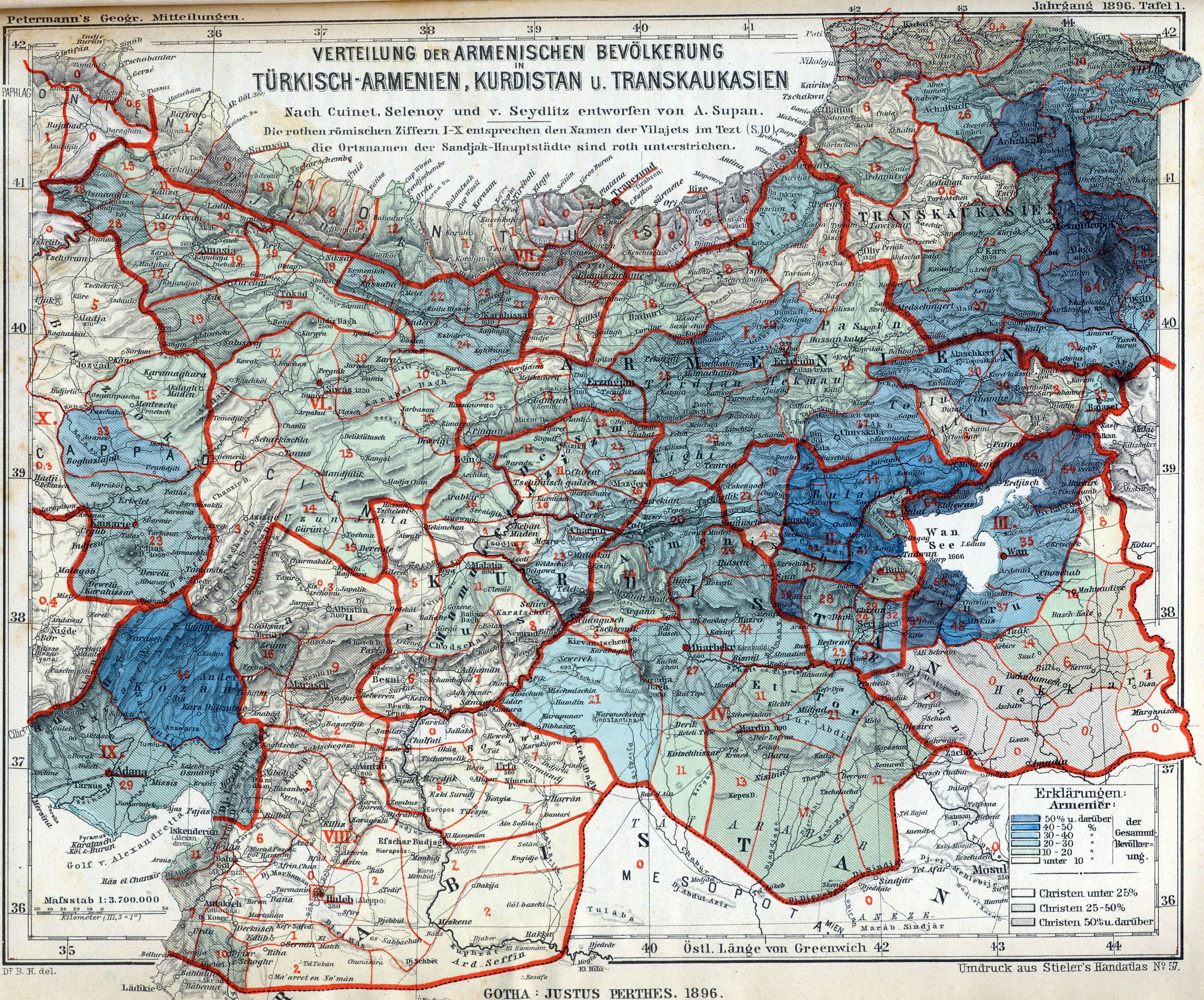 The Armenian population in historical Armenian regions in 1896. The Armenian population is represented in the colored areas, as well as in the red Arabic numbers, indicating their exact percentage.